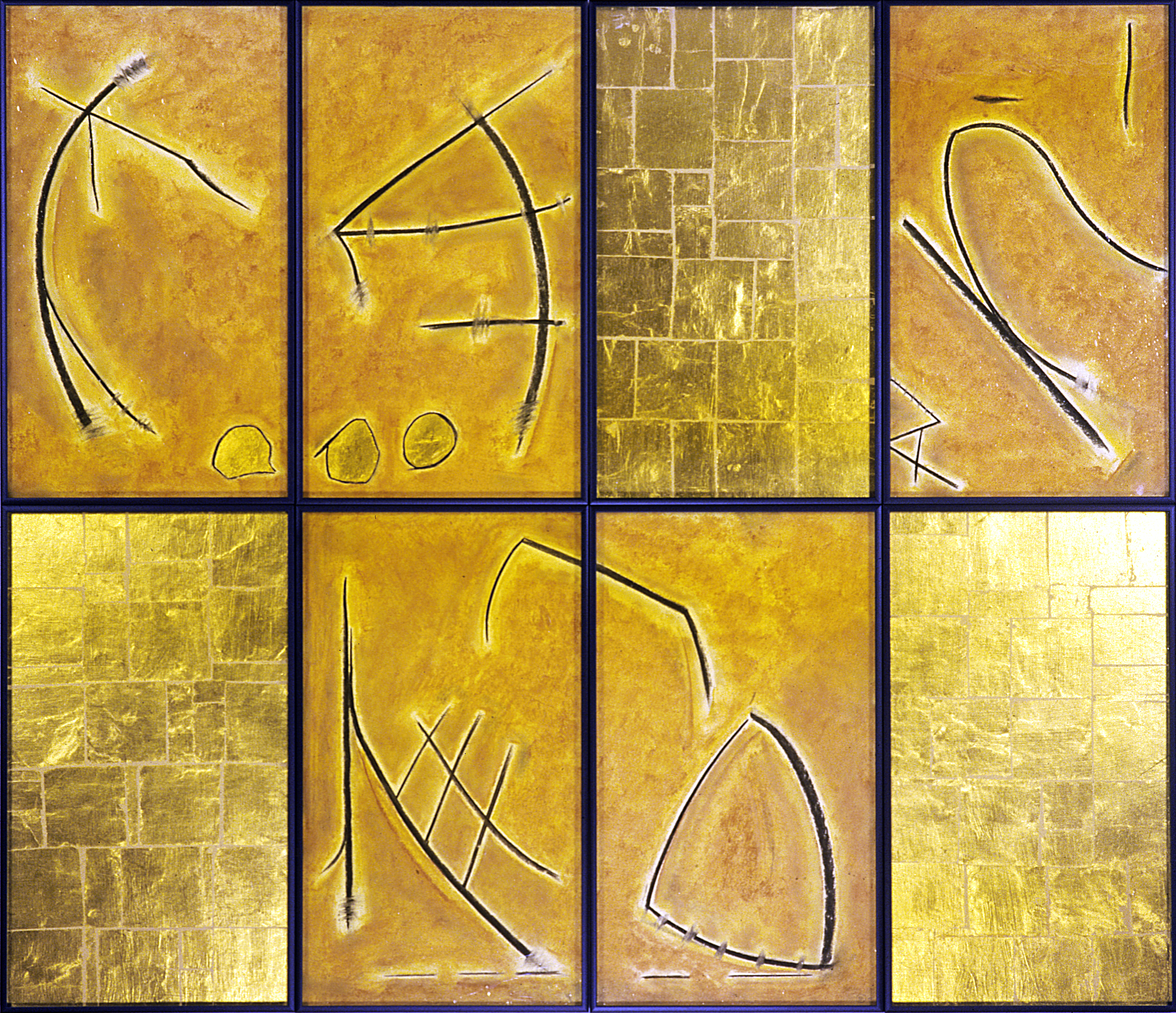 Millennium Byōbu II” — by Robert Kehlmann (2000). In the Four Seasons Hotel, San Francisco. Photo: Richard Sargent, Kehlmann Studio Archive, date: 2000.